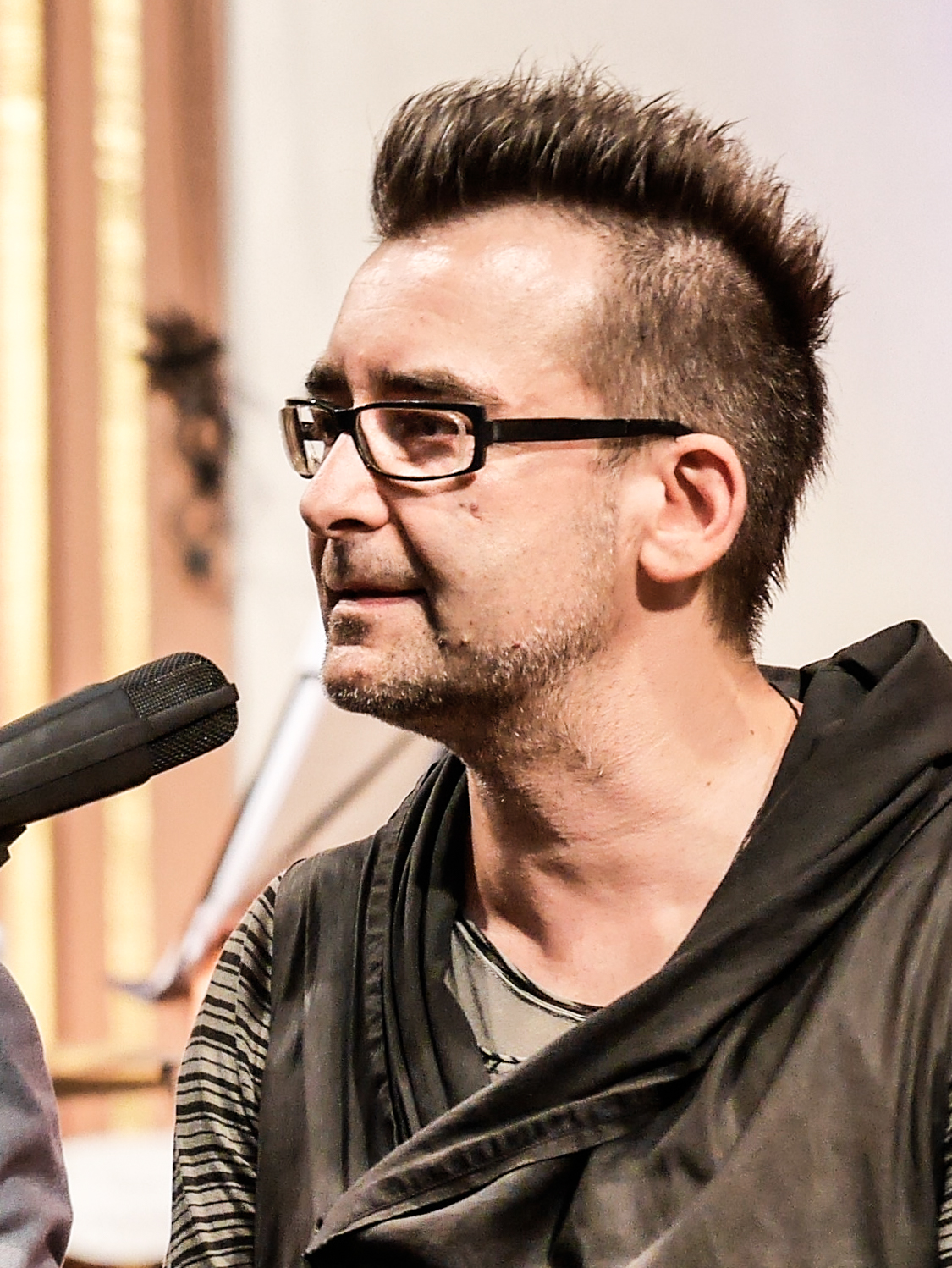 Austrian writer Michael Stavarič at the Leselenz 2015 in Hausach